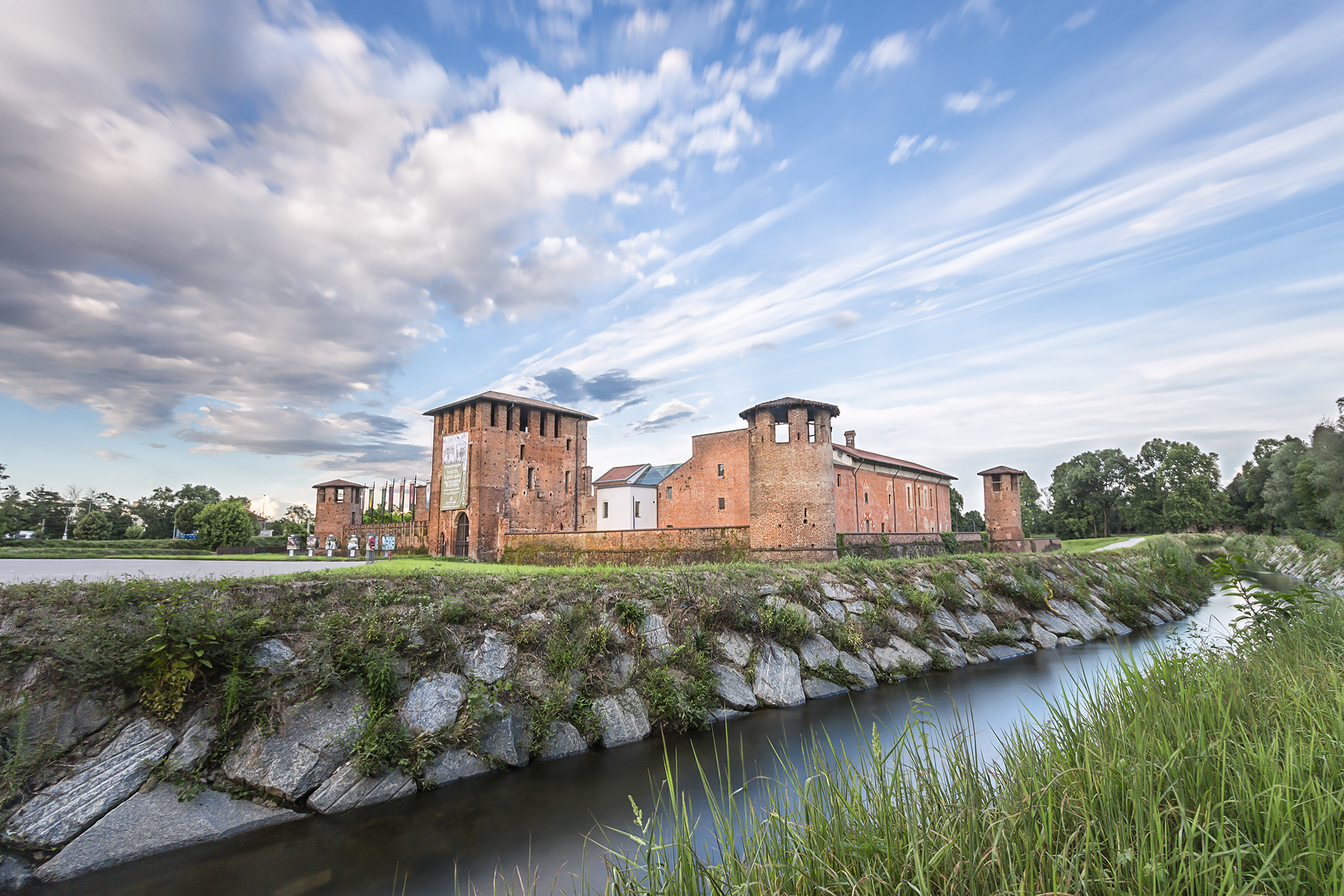 Castello Visconteo - Legnano This is a photo of a monument which is part of cultural heritage of Italy.